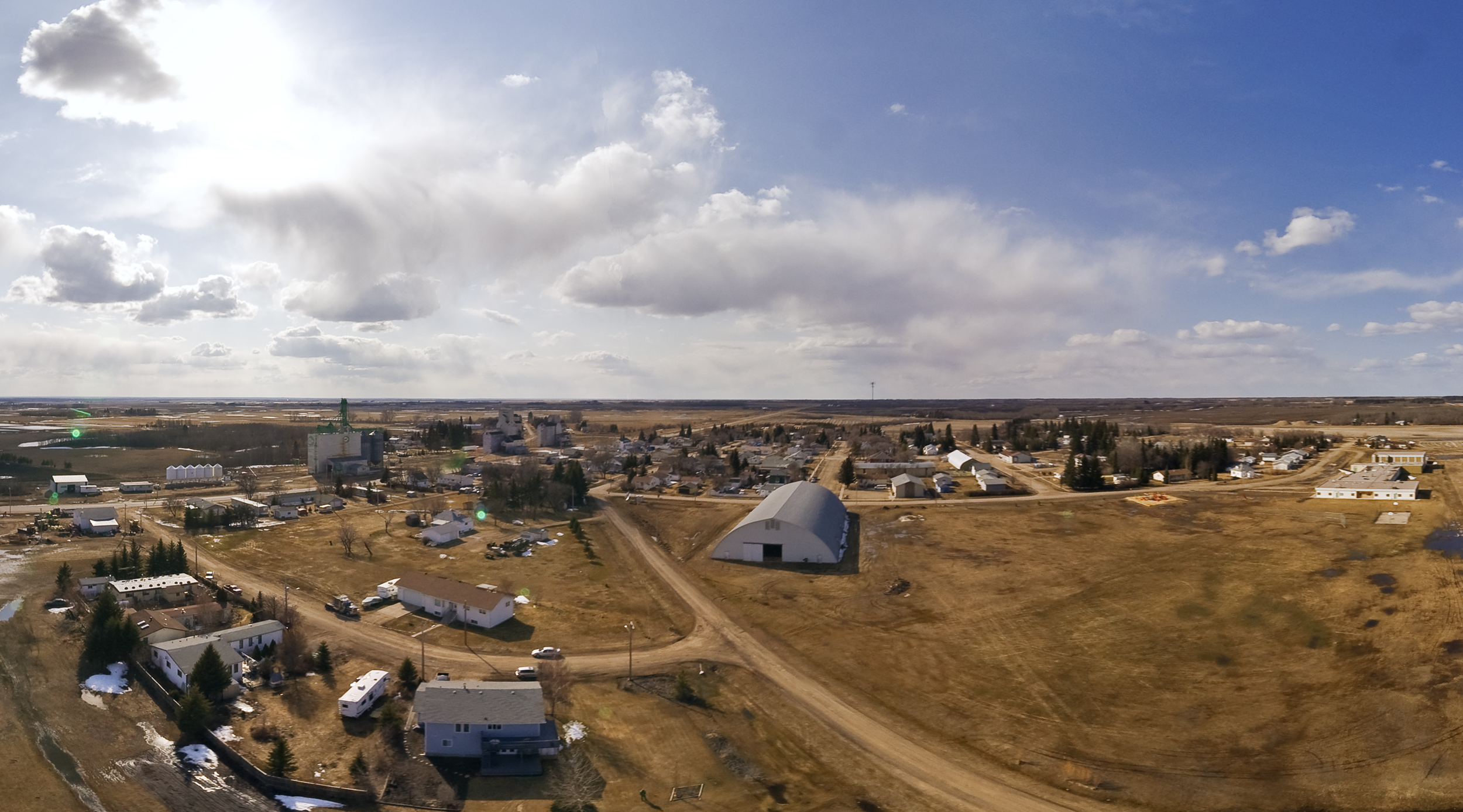 Aerial image of Canwood, SK, Canada. Picture is taken with a camera suspended from a kite